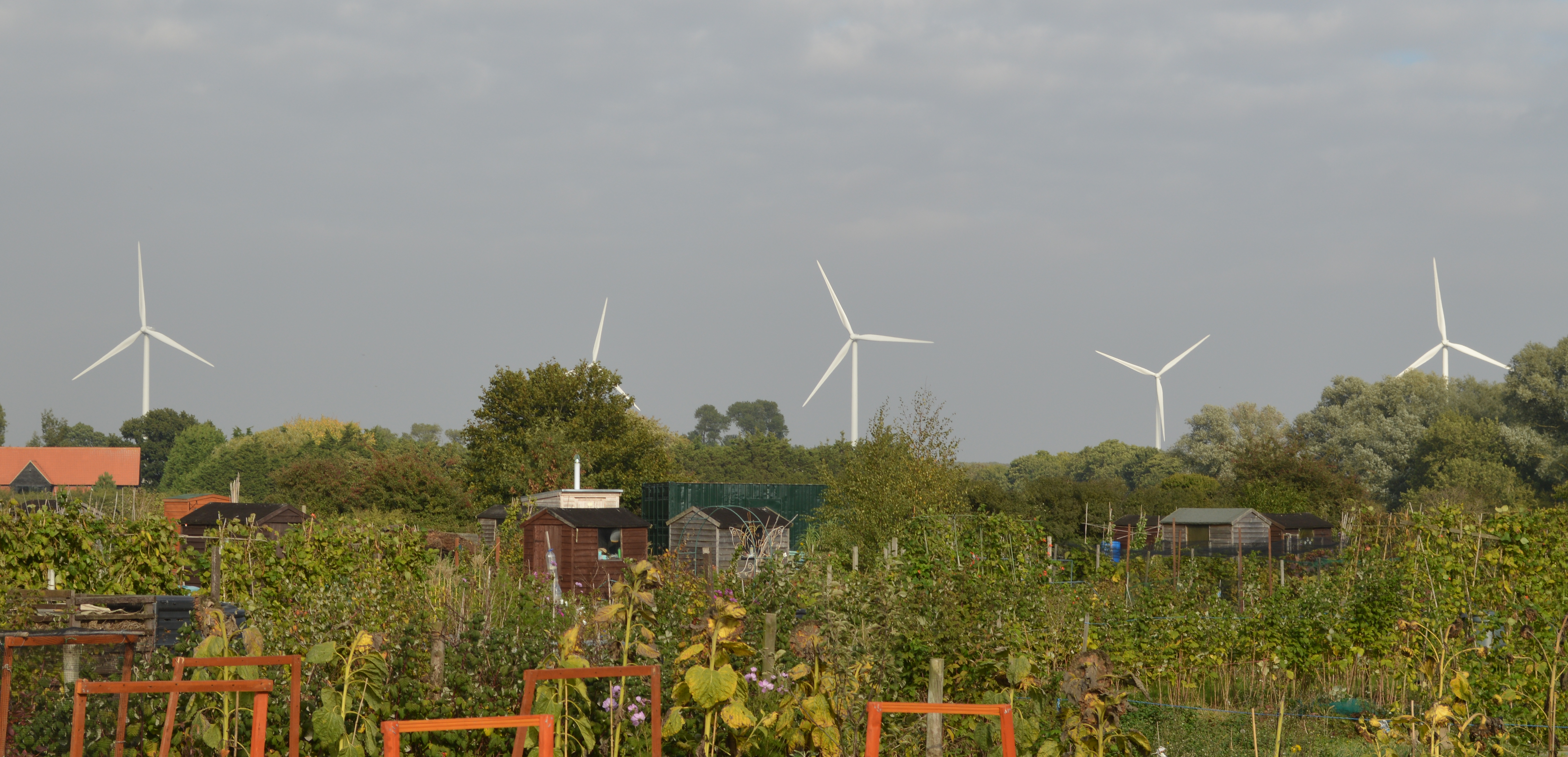 Earls Hall Farm Wind Farm, from St Osyth allotments. The windfarm consists of 5 Repower MM92/2050 wind turbines (power 2050 kW, diameter 92 m), total nominal power of 10.25 MW